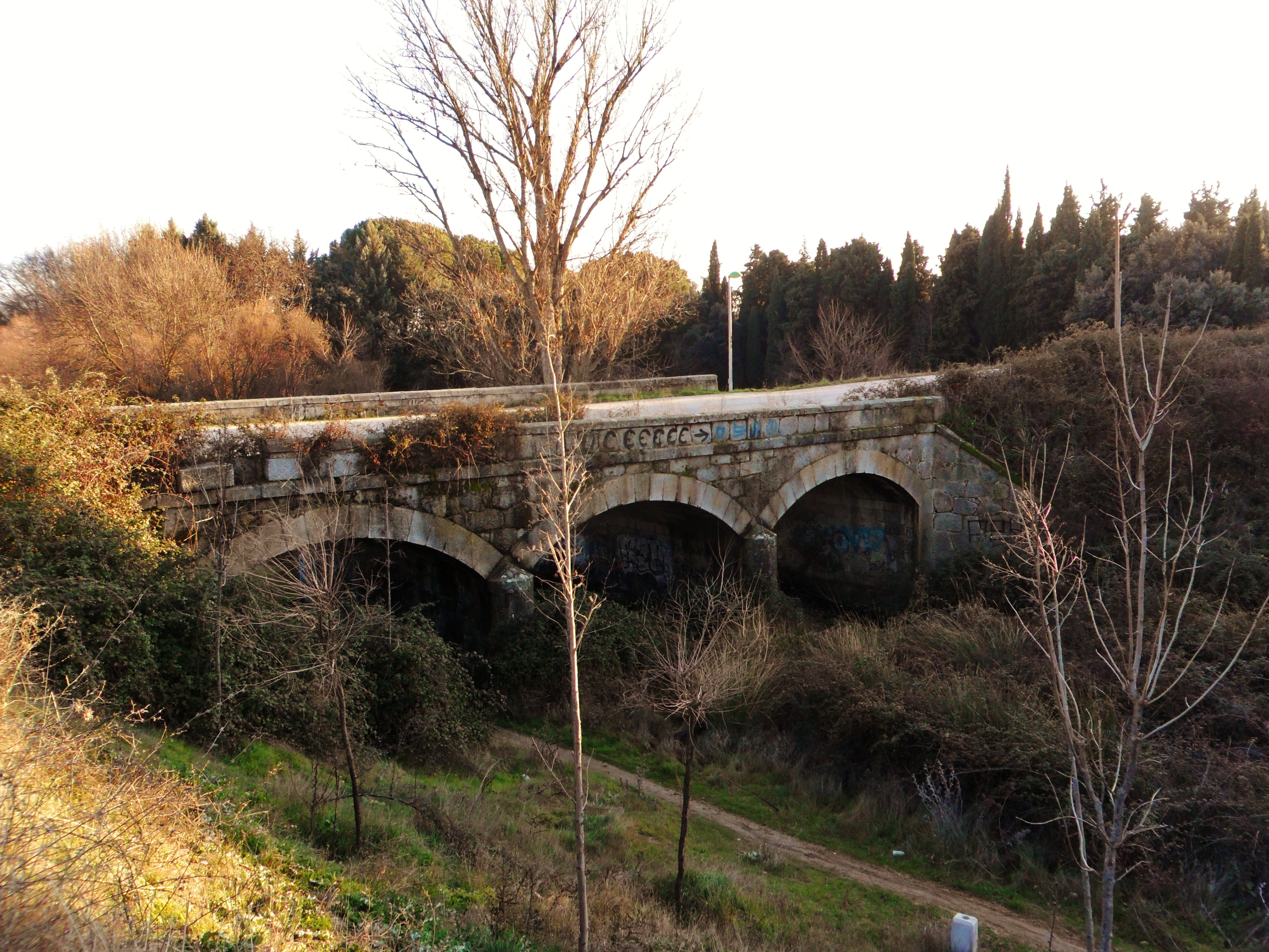 Bridge in Villanueva del Pardillo.